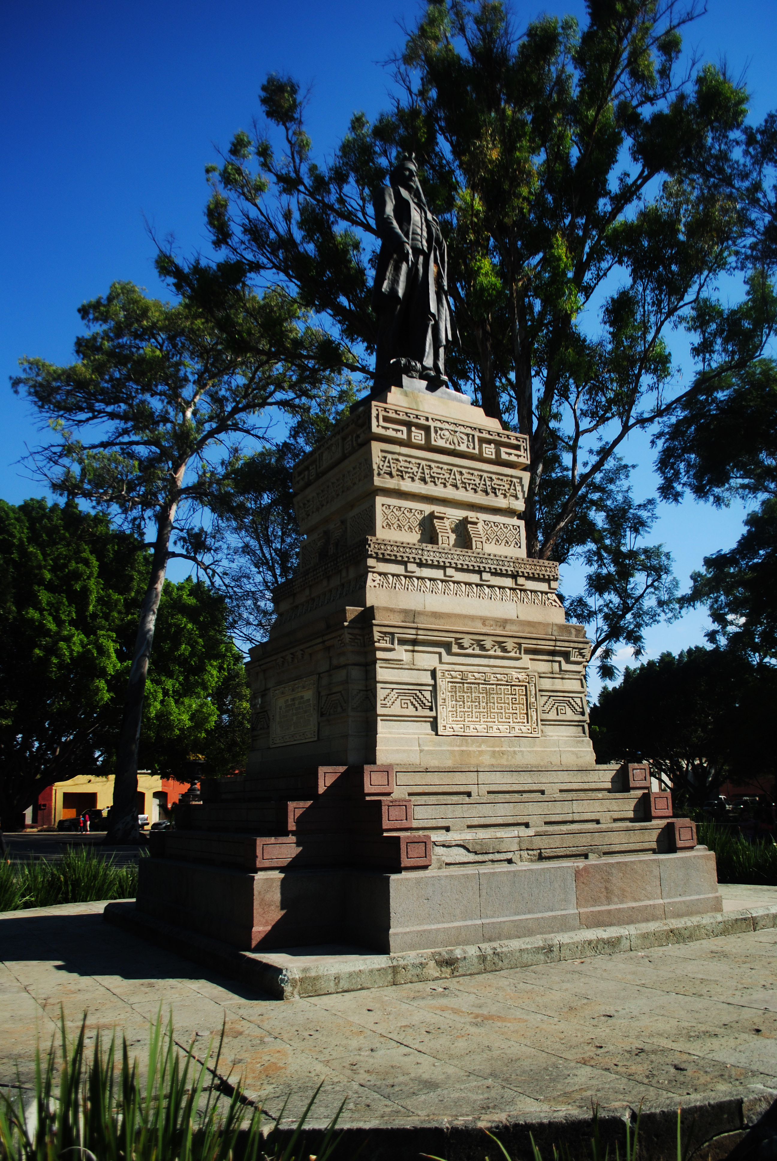 Sculpture of Benito Juárez made in 1894 at Paseo Juárez "El Llano" a public park in the Historic Centre of Oaxaca, one of the oldest of the city. Juárez holds a Mexican flag with one hand and with the other is pointing Maximilian's Imperial Crown of Mexico which remains in the soil, representing the defeating of the Second Mexican Empire.